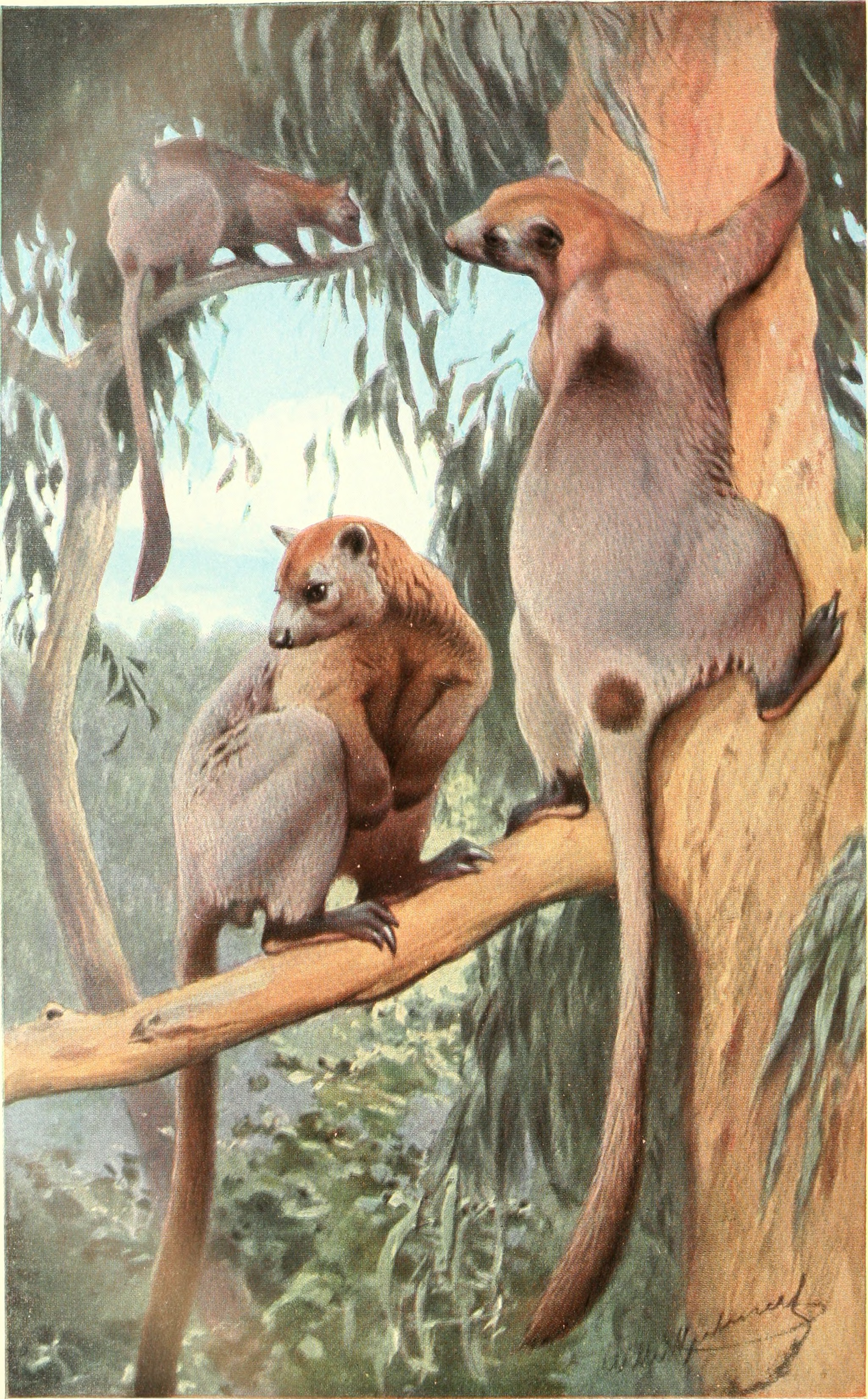 Title: Brehms Tierleben. Allgemeine kunde des Tierreichs Year: 1911 (1910s) Authors: Brehm, Alfred Edmund, 1829-1884; Zur Strassen, Otto L. , 1869-; Heck, Ludwig, 1860-; Hempelmann, Friedrich, 1878-; Heymons, Richard, 1867-; Werner, Franz, b. 1867; Marshall, William, 1845-; Bibliographisches Institut Leipzig Subjects: Zoology; Animal behavior Publisher: Leipzig, Wien, Bibliographisches Institut Text Appearing Before Image: ' Text Appearing After Image: Bennetts Baumkänguruh.